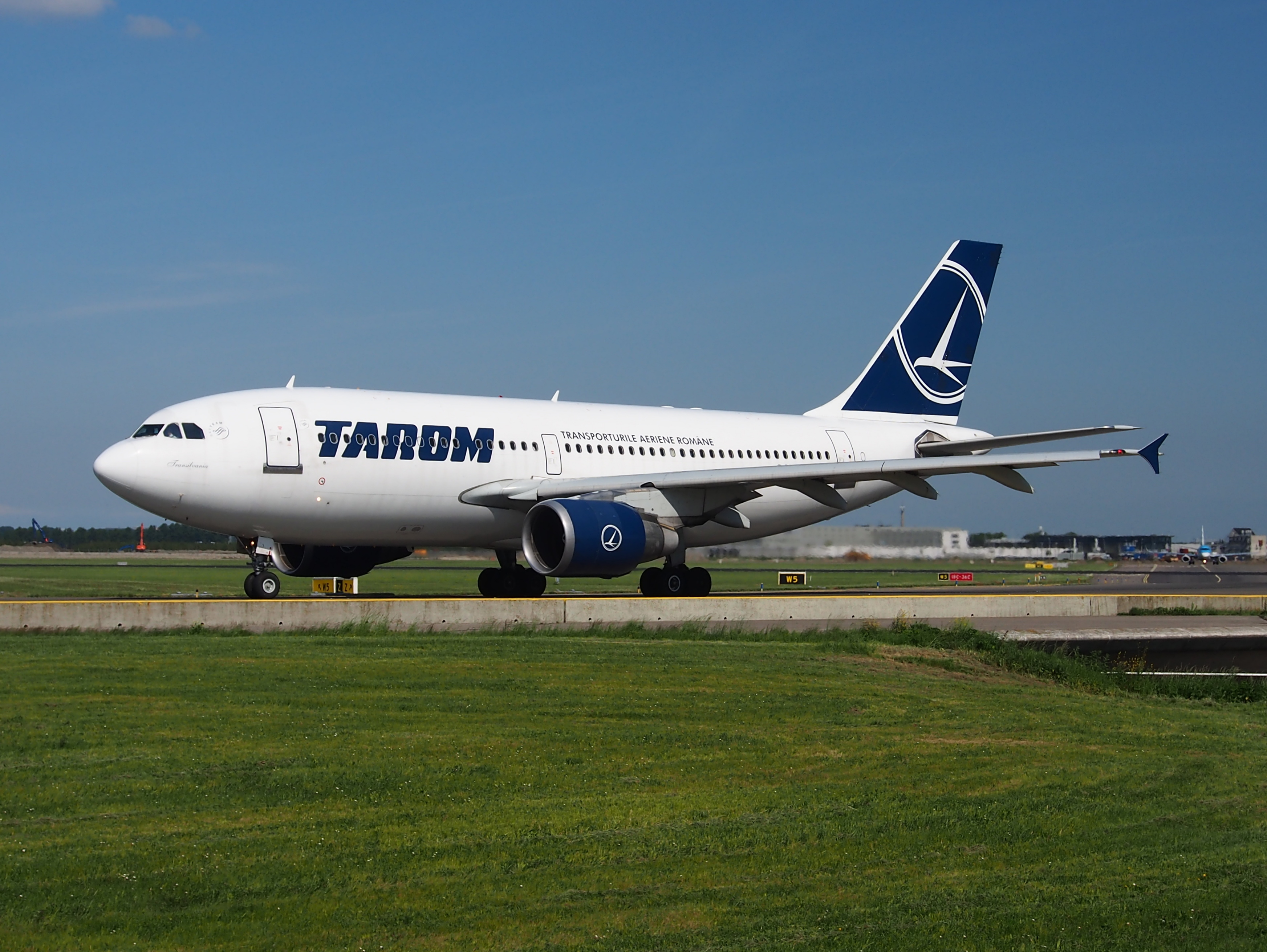 Photographed at Schiphol (AMS - EHAM), The Netherlands.